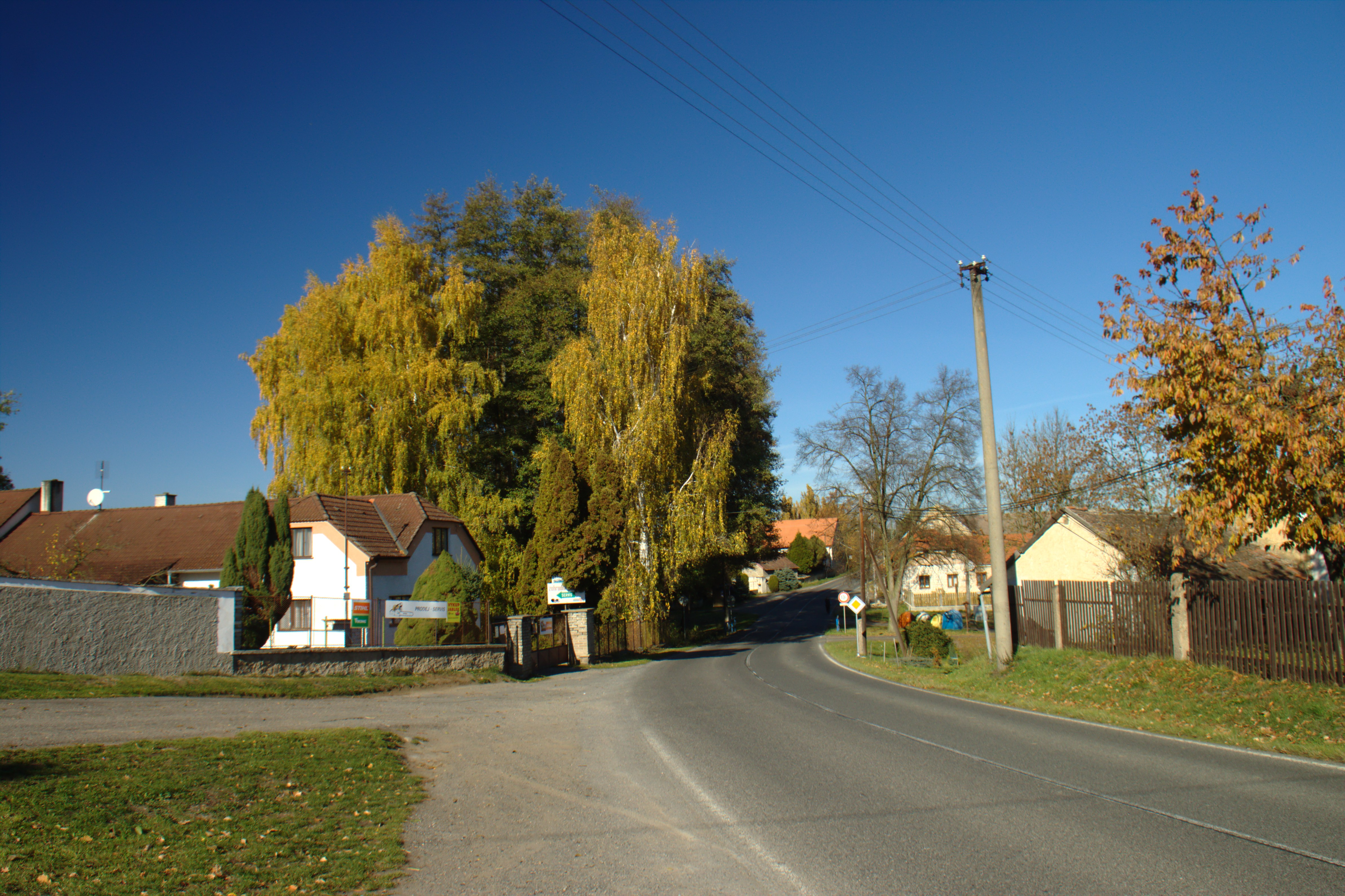 Main road to the village of Přední Poříčí near Březnice, Central Bohemia, CZ